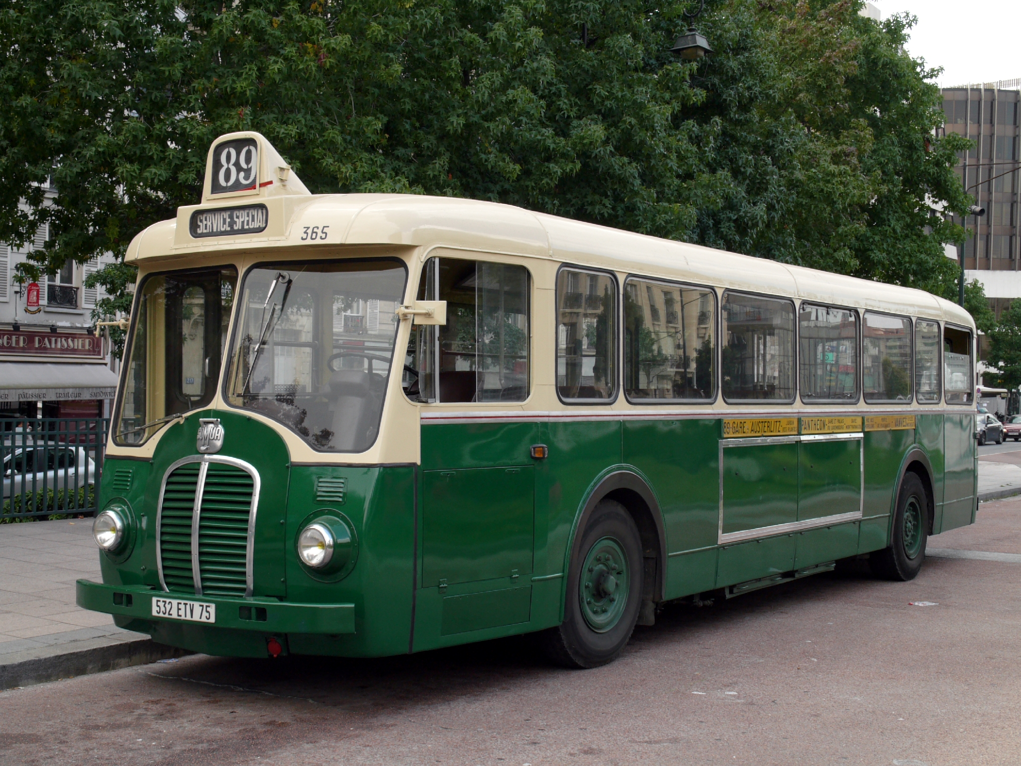 OP5 bus of RATP (parisian transportation) builded by Somua in 1955.